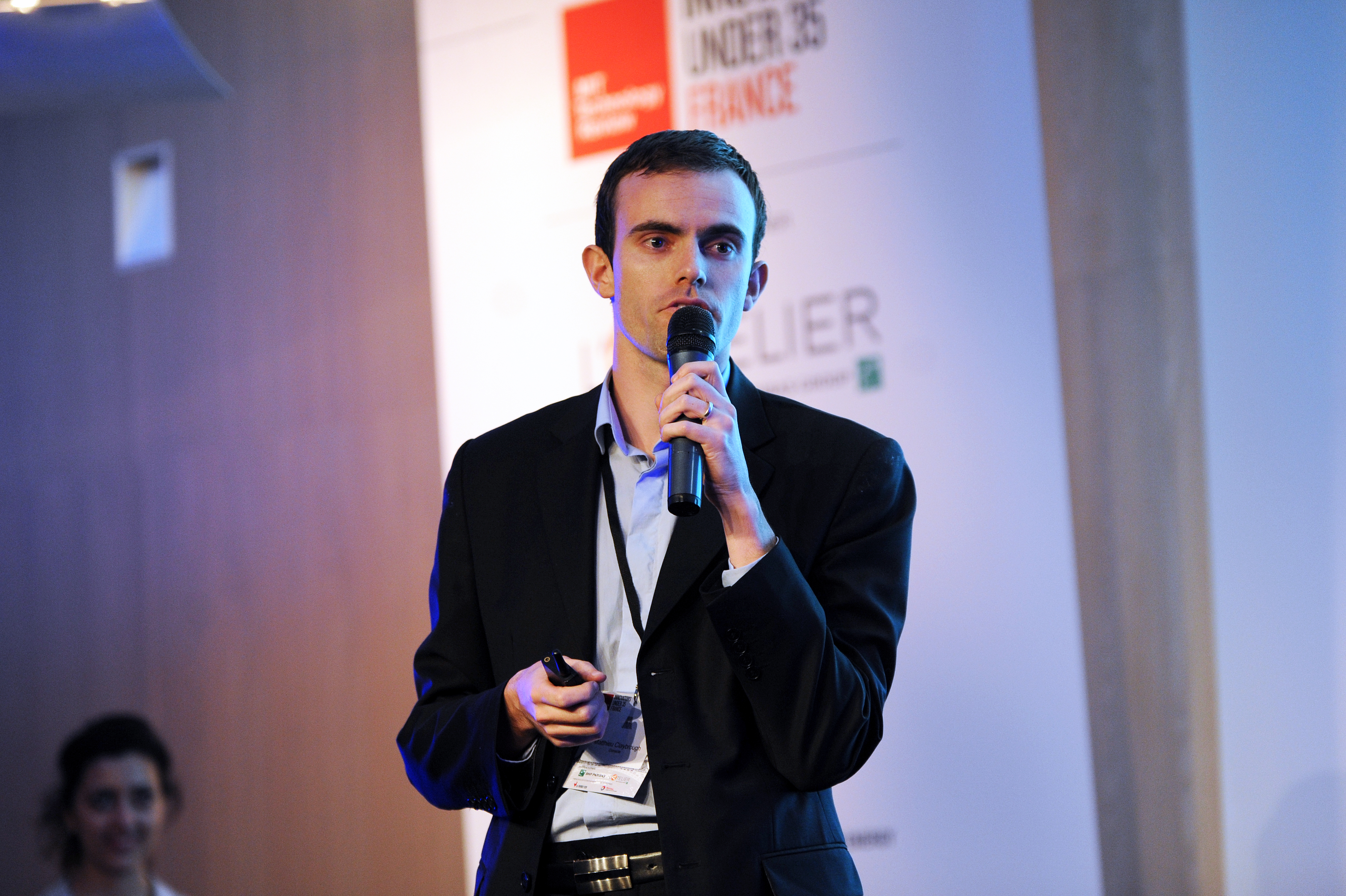 Matthieu Claybrough, a founder of Donecle, during award ceremony of MIT Technology Review. (Atelier BNP Paribas)